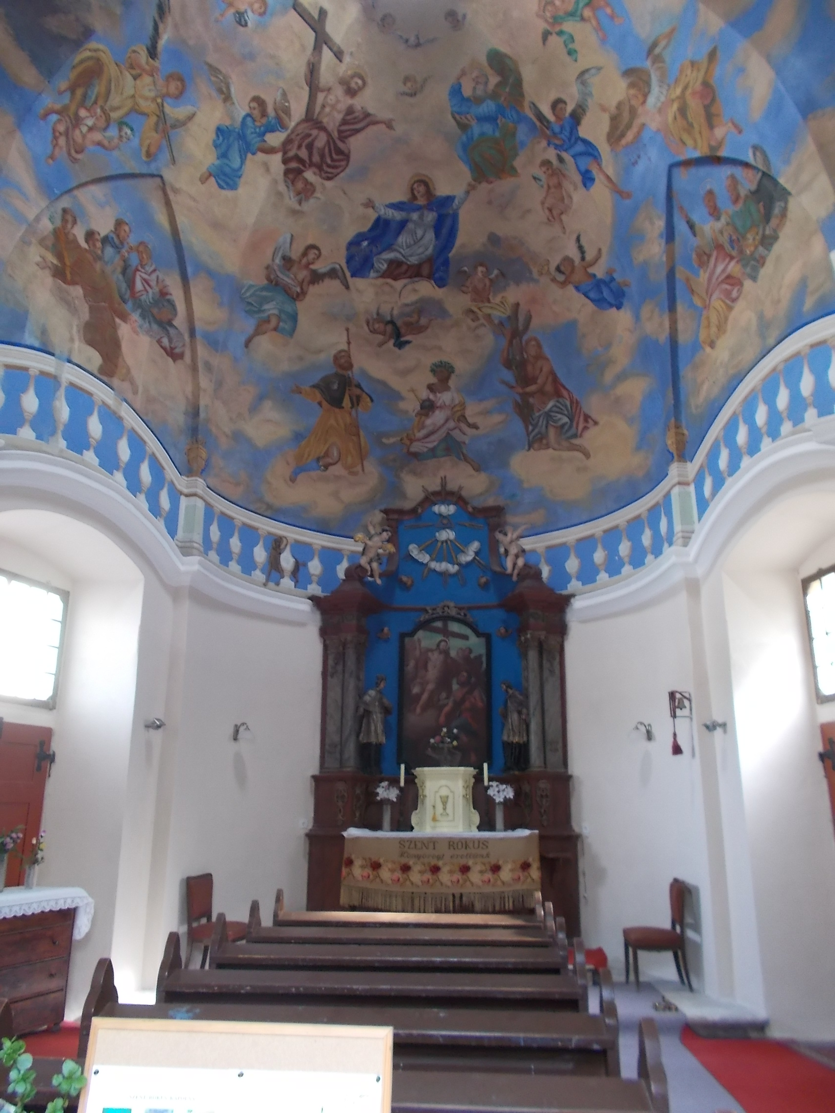 After the epidemic with Mihály Althann's generous sponsorship and public support they built the chapel with a semicircle layout by public subscription in honour of Saint Rókus. - Street, Vác, Pest County, Hungary